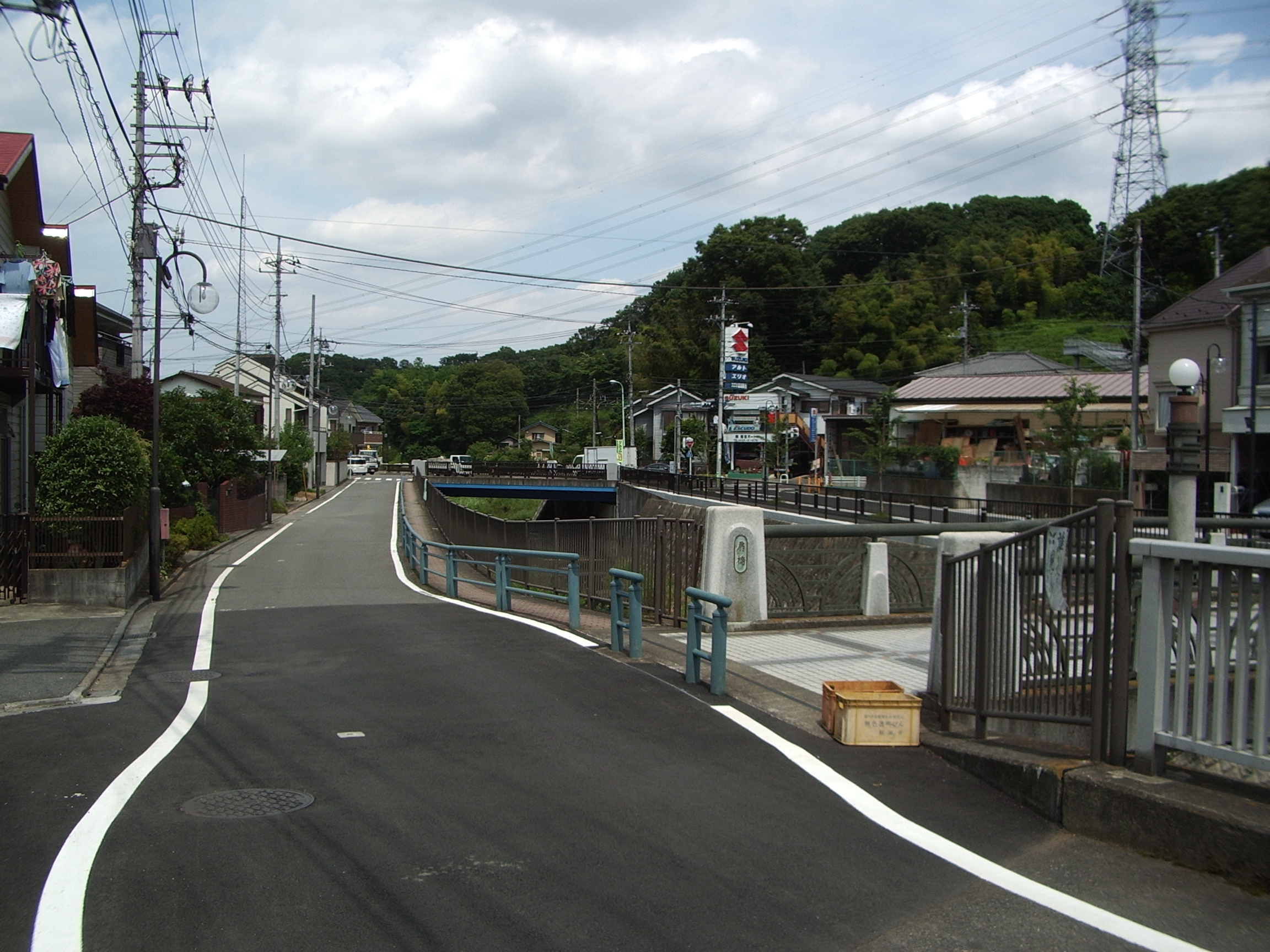 Misawagawa, Sakahama, Inagi, Tokyo